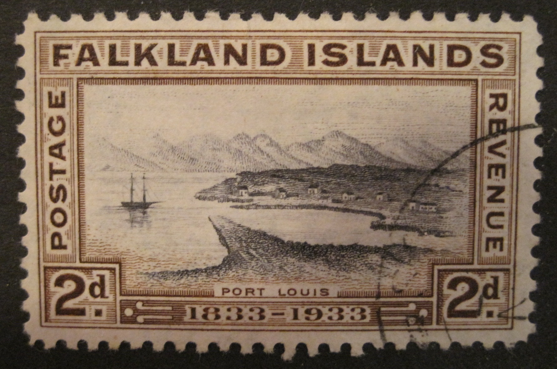 Falkland Islands 2d Centenary of British Administration Stamp (1933)